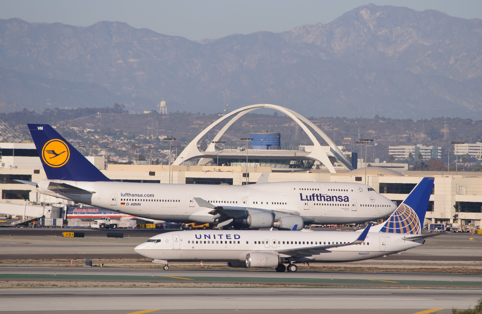 United 1538 arrives from Guadalajara, as Lufthansa 457 taxis toward the runway to return to Frankfurt. N16217, Boeing 737-800 (United) D-ABVN "Dortmund," Boeing 747-400 (Lufthansa)